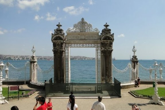 Gate to Bosphorus